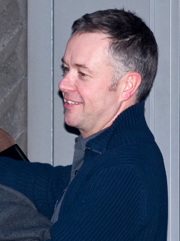 Michael Winterbottom, British filmmaker, at the press conference for his documentary "The Shock Doctrine"